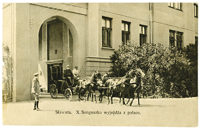 Князь Роман Даміан Санґушко виїздить з палацу. Поштівка.